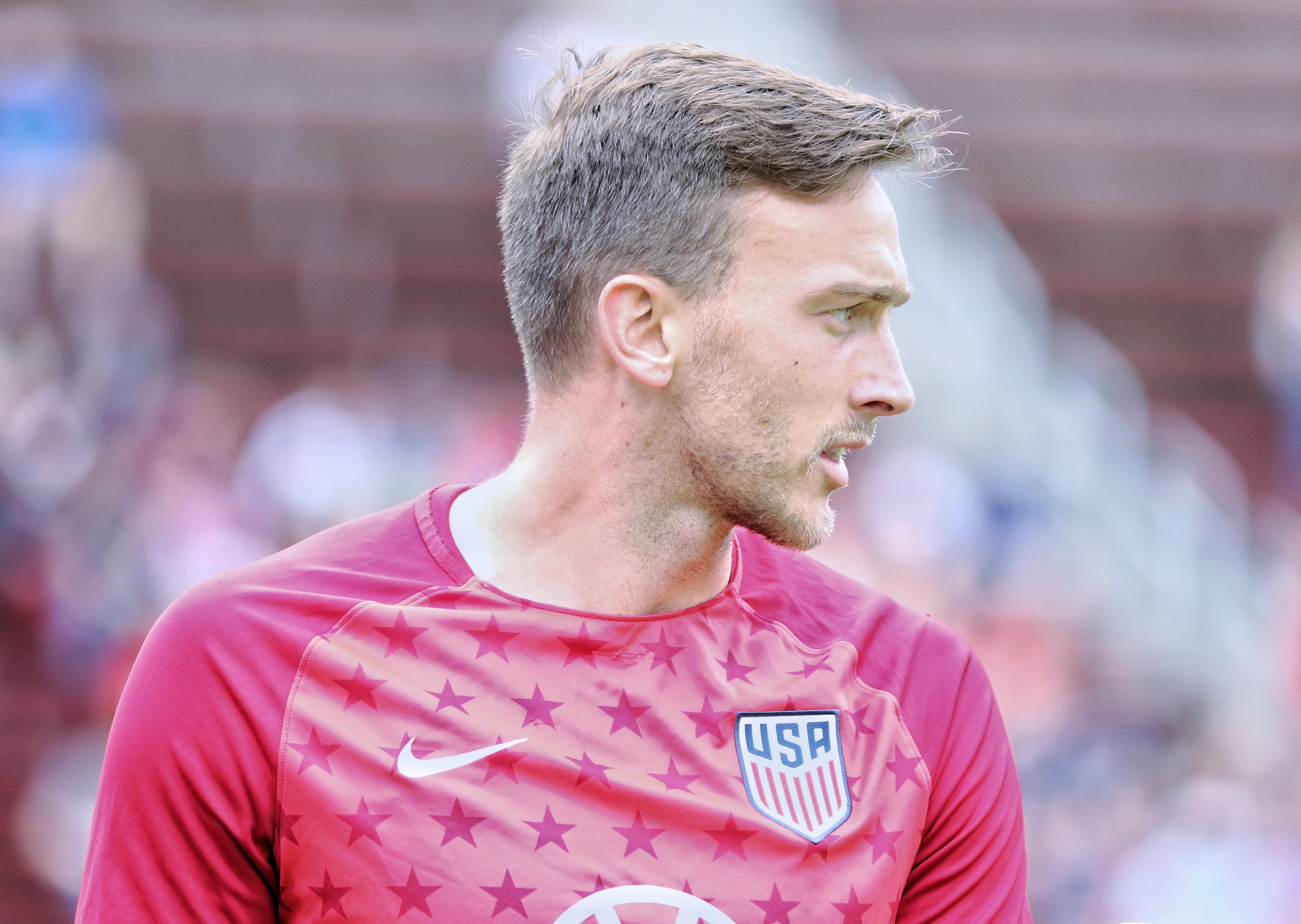 Tyler Miller representing the United States on June 9, 2019.